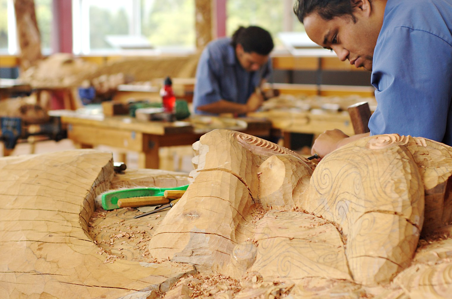 Maori students from The New Zealand Maori Arts & Crafts Institute in Rotorua carving traditional Maori styled wood carvings.